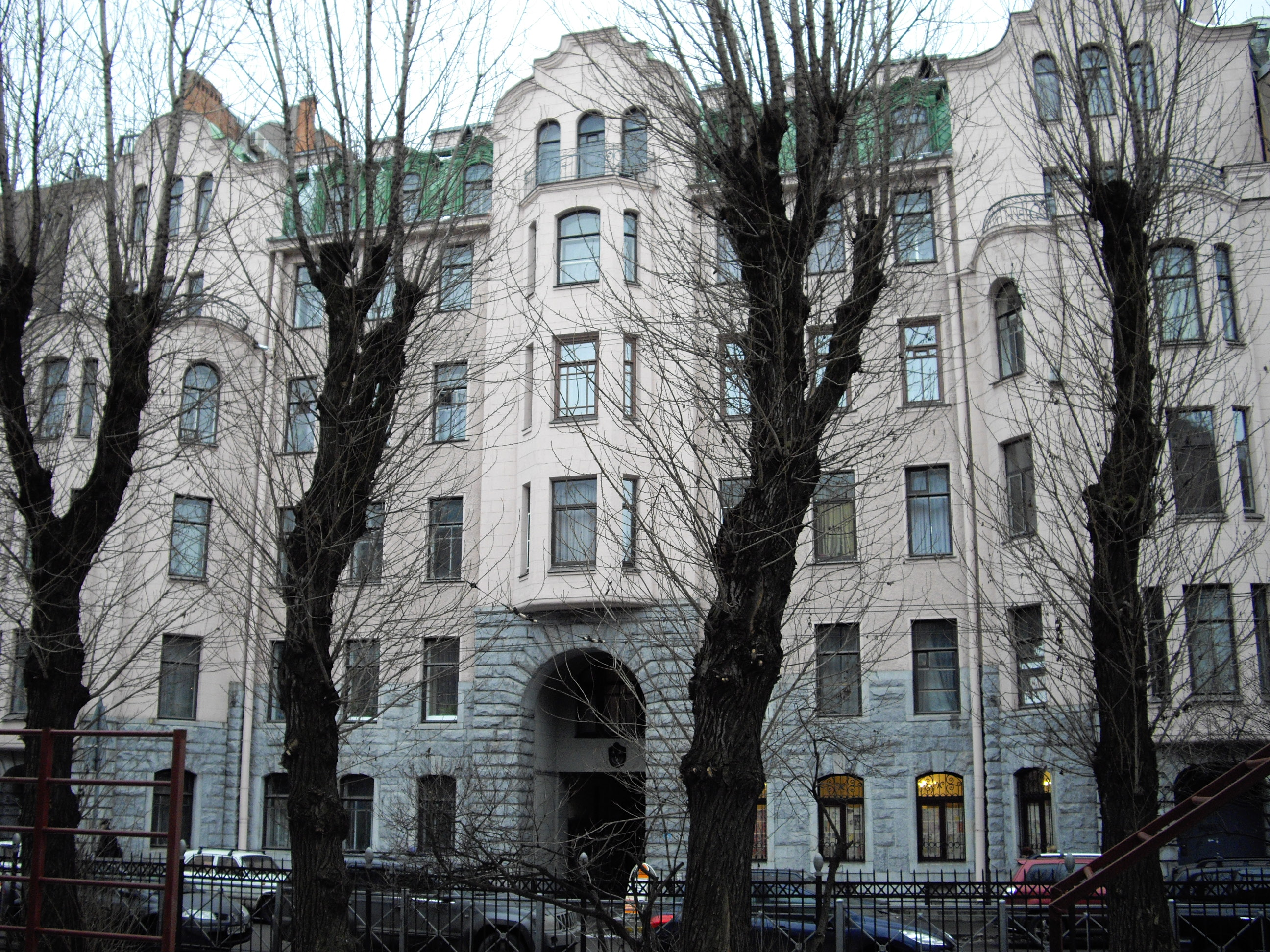 3, Bolshaya Monetnaya street, Saint-Petersburg, Russia. House of I. N. Borozdkin, architect Anatoly Kovsharov, 1912-1913.